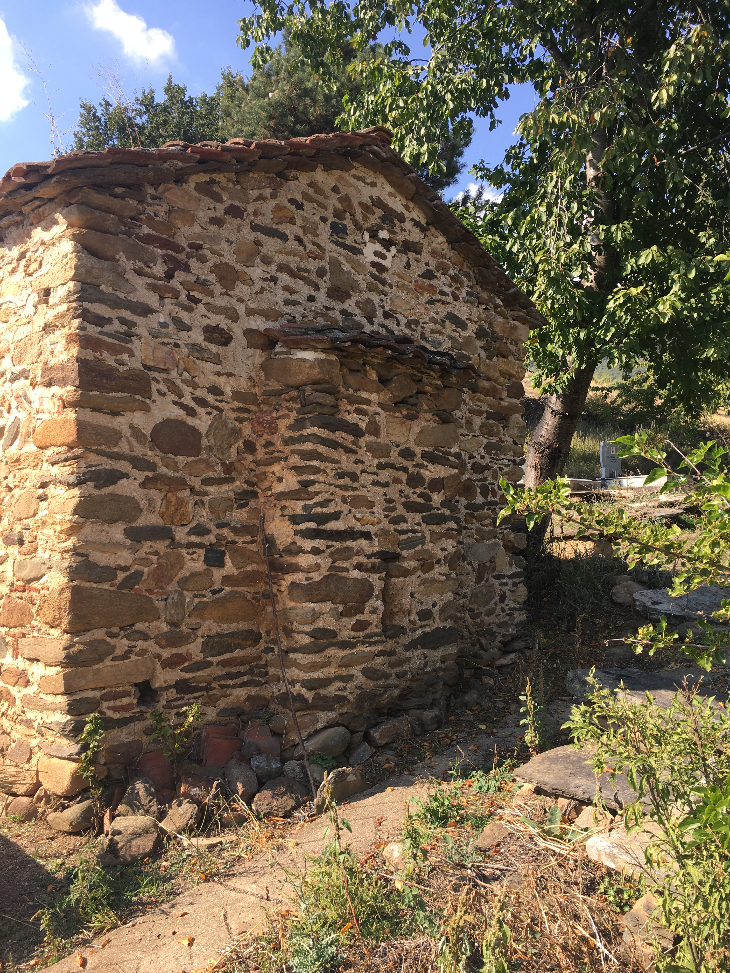 The apse of St. Elijah Church in the village of Dolgaec